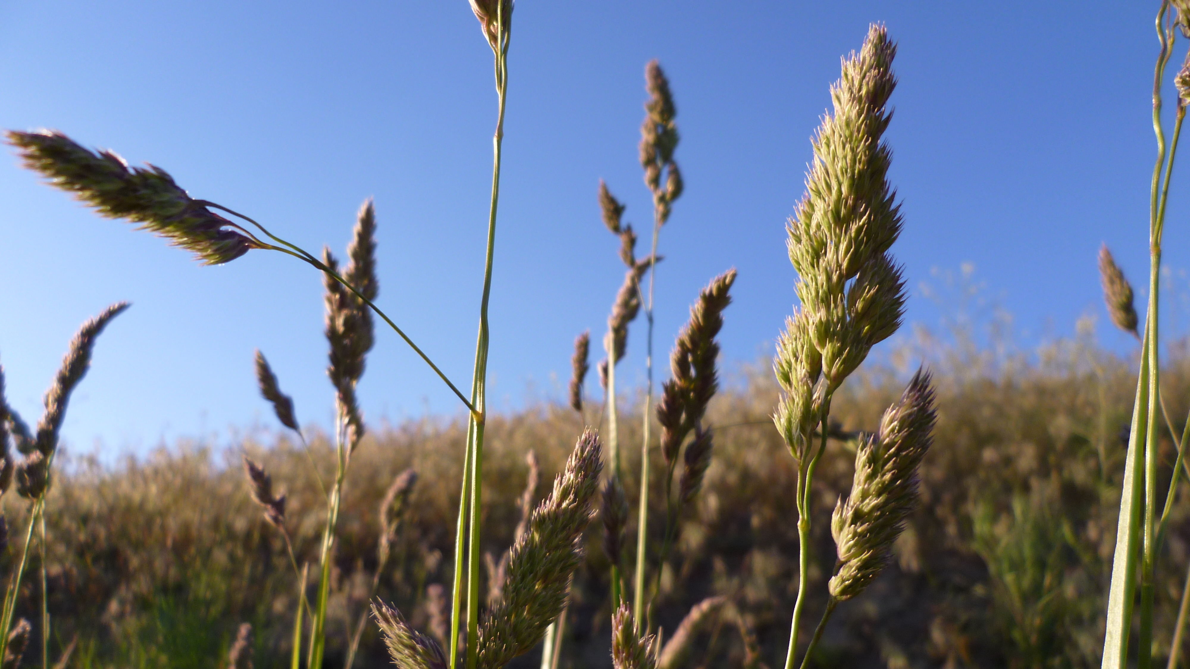 Dactylis glomerata in Swakane Canyon, Chelan County Washington